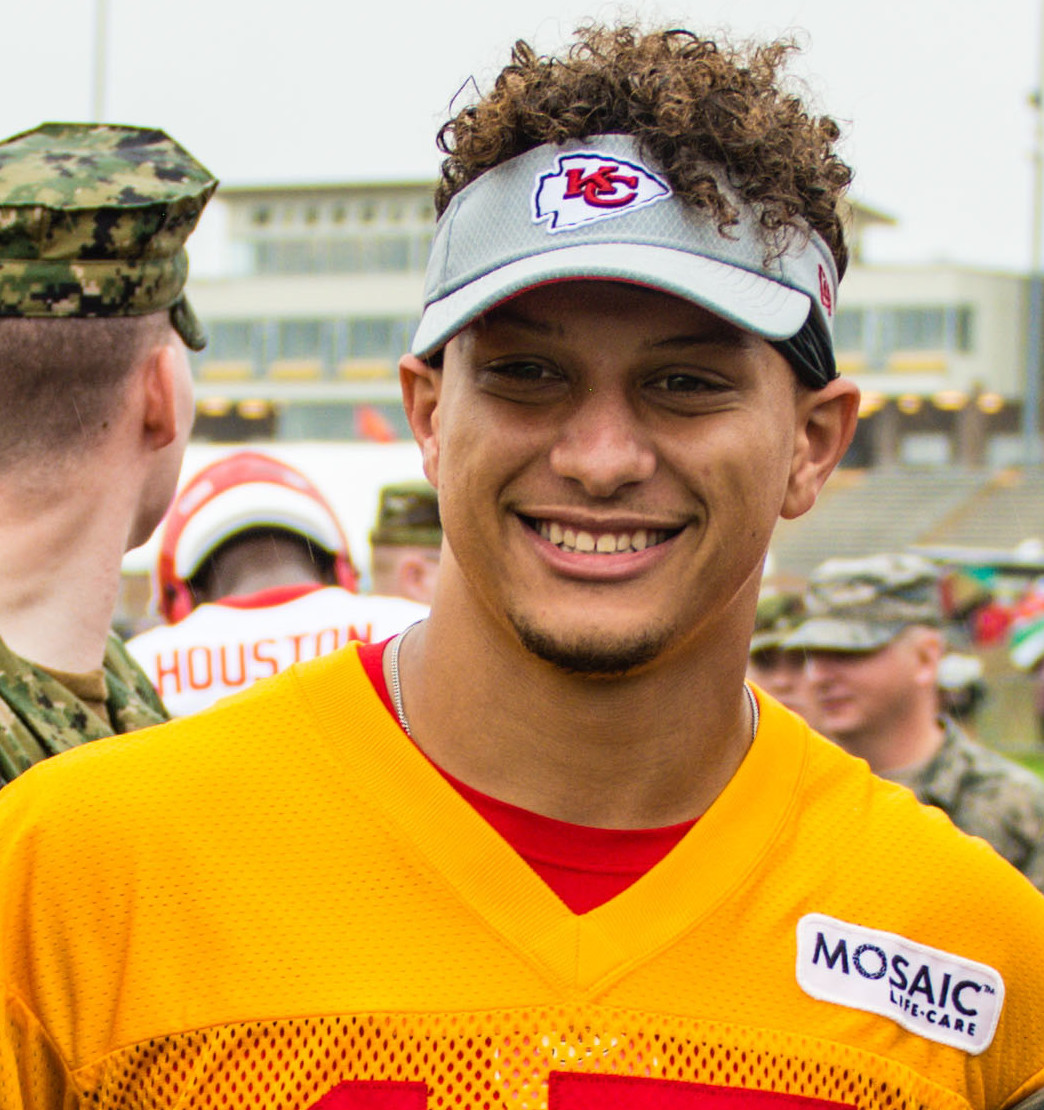 Members of the 139th Airlift Wing, Missouri Air National Guard, pose for a photo with Patrick Mahomes, quarterback for the Kansas City Chiefs football team, at the Chief’s training camp in St. Joseph, Mo., Aug. 14, 2018. The Chiefs hosted a military appreciation day on their final day of training.